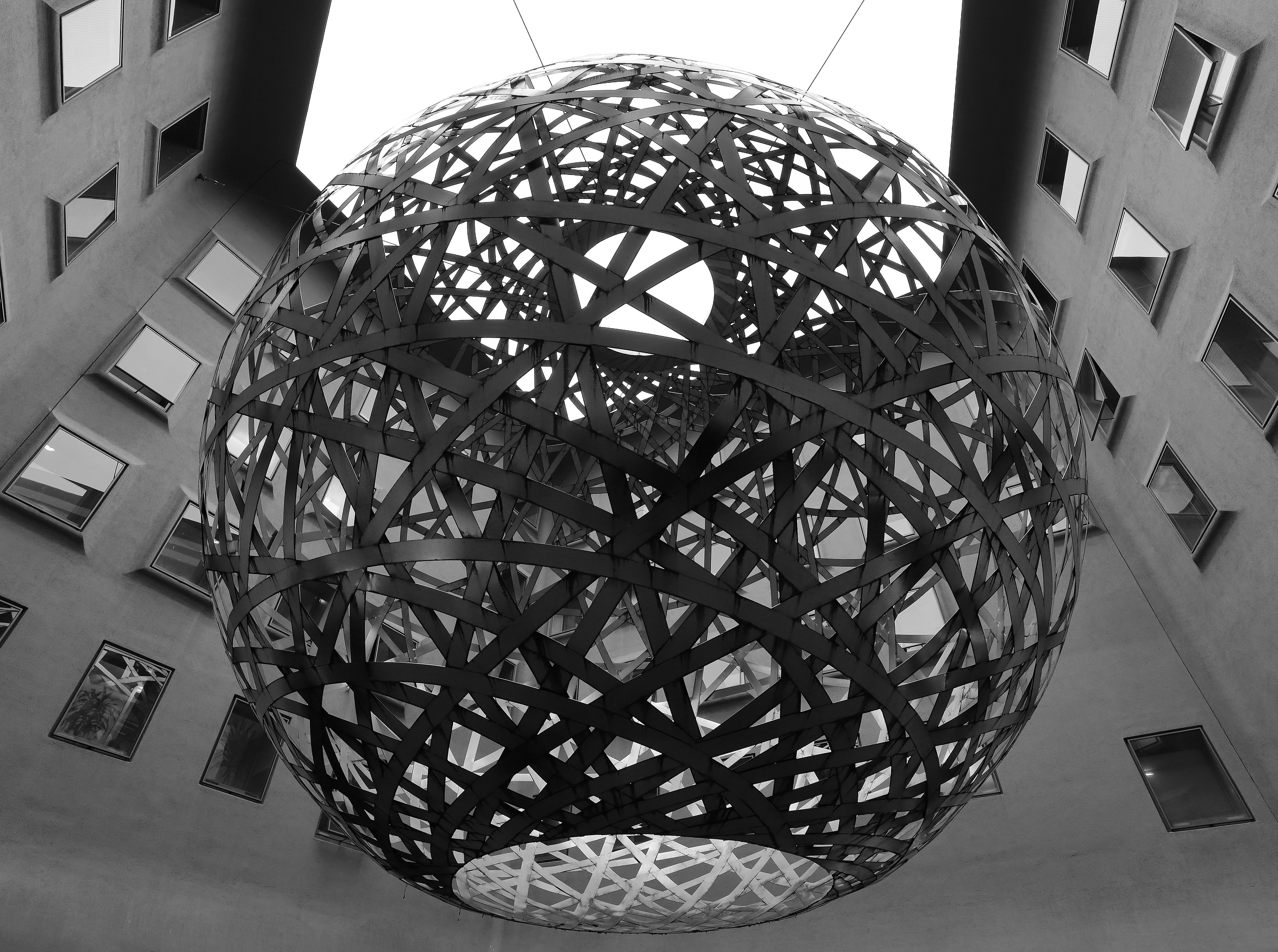 Munich shopping mall Fünf Höfe: Sphere by Olafur Eliasson.